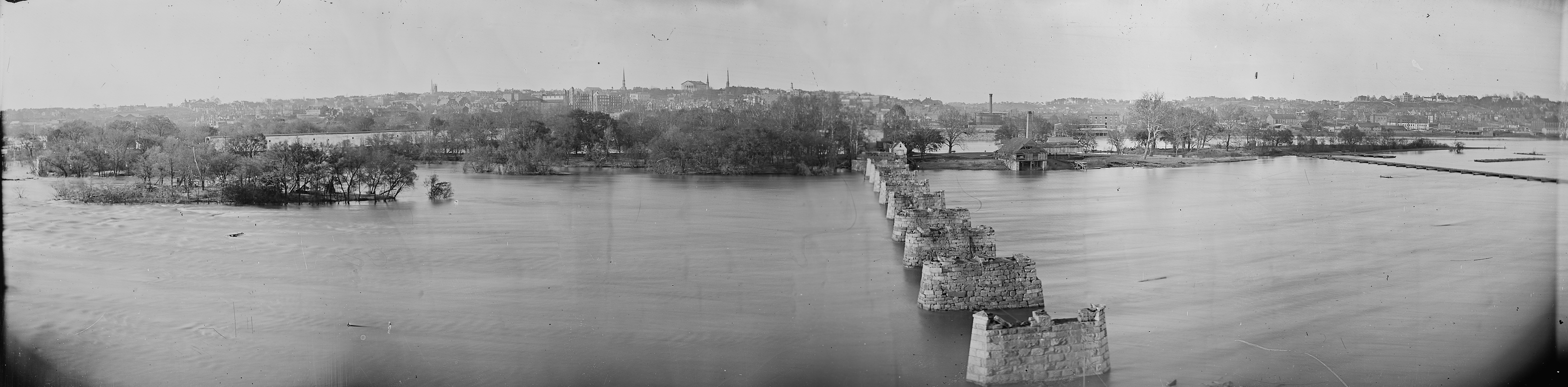 Panorama of Richmond, Virginia, in 1865, following its fall in the American Civil War. Compiled from seven different stereoscopic images taken from the south end of the Mayo Bridge, in Manchester, looking north, by a photographer from Mathew Brady's outfit. It was digitally assembled in October 2011, and was rendered using a cylindrical projection.